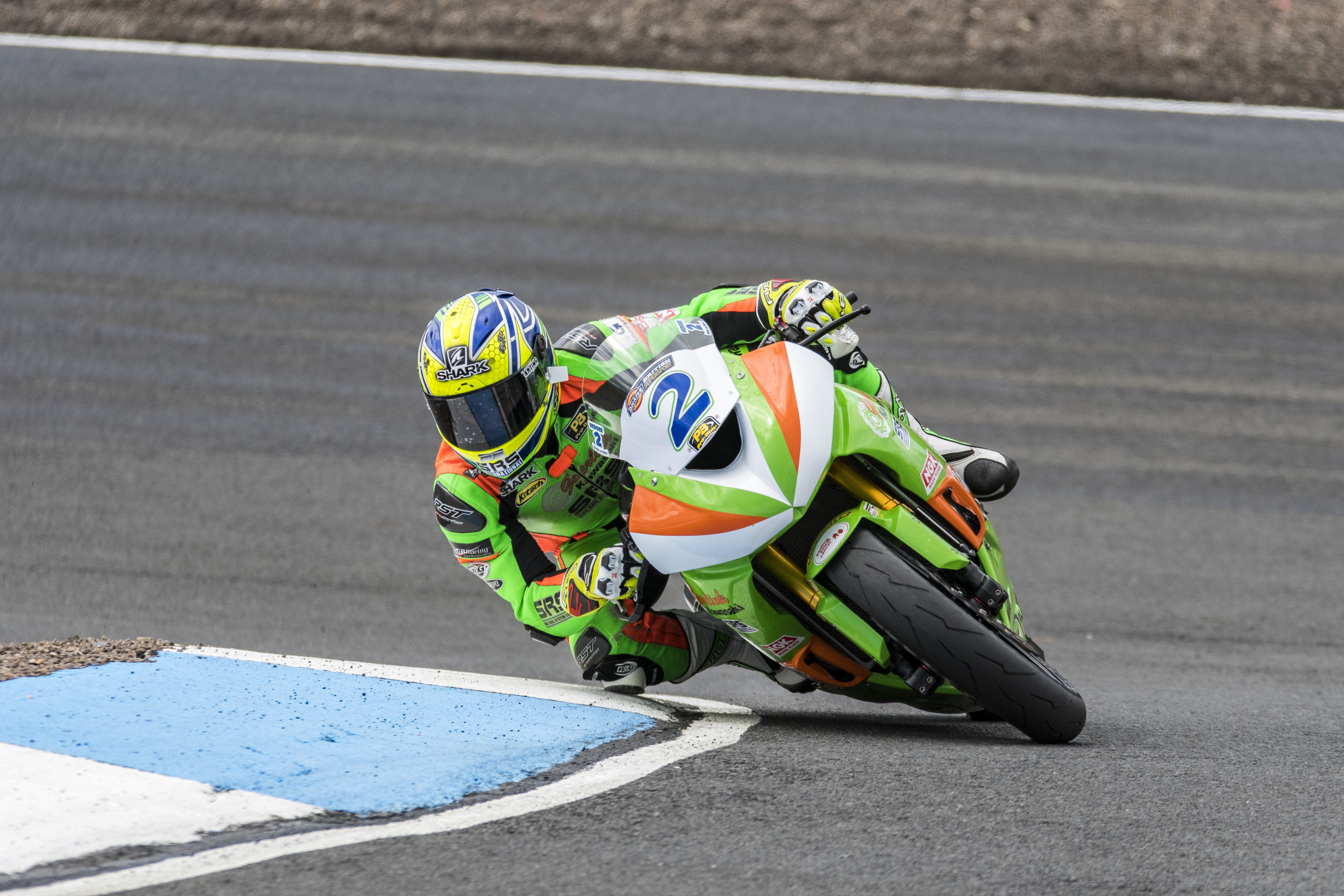 2016 British Supersport Championship Round 4, Knockhill – #2 Luke Hedger – Kawasaki – Gearlink Kawasaki